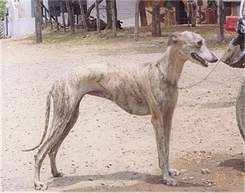 Rampur Hound (a Reza type bitch, the smaller of the three types that exists)